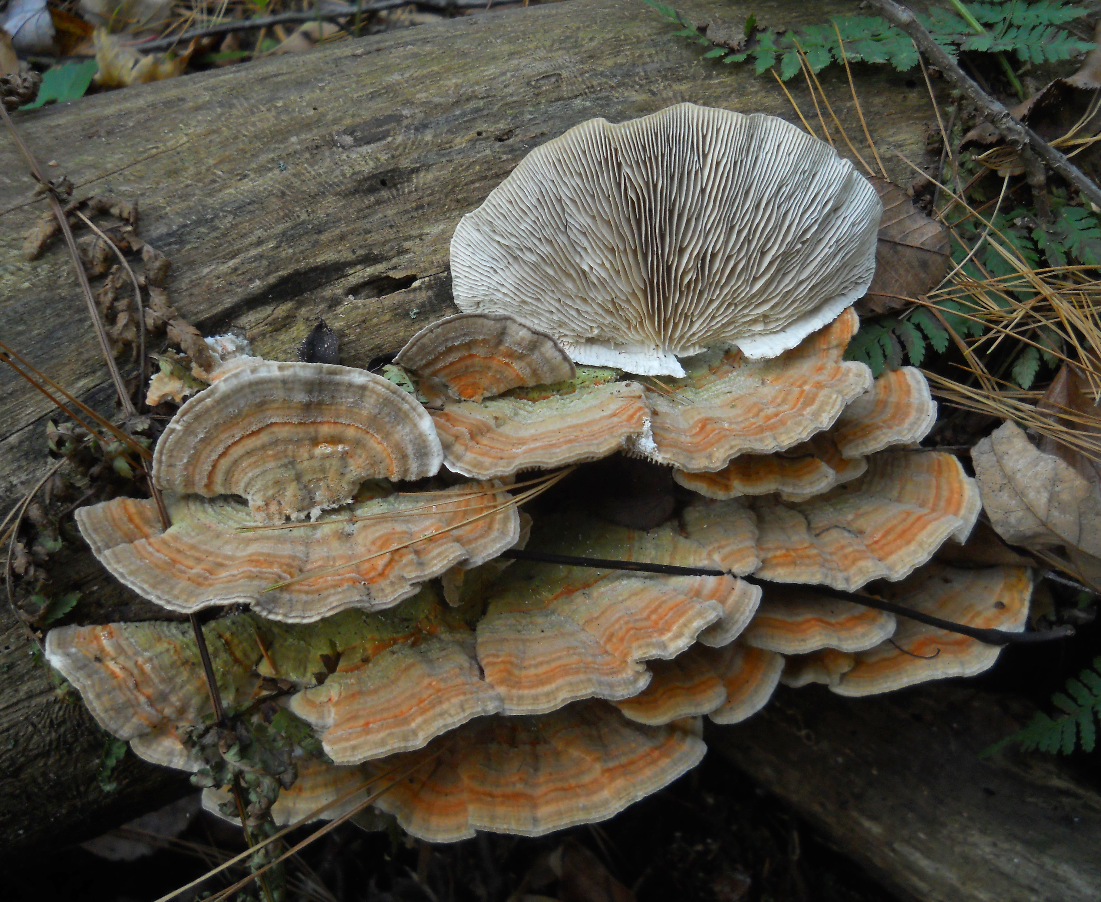 Lenzites betulina (L.) Fr. Image location: Westmoreland Co., Pennsylvania, USA Recognized by sight For more information about this, see the observation page at Mushroom Observer.